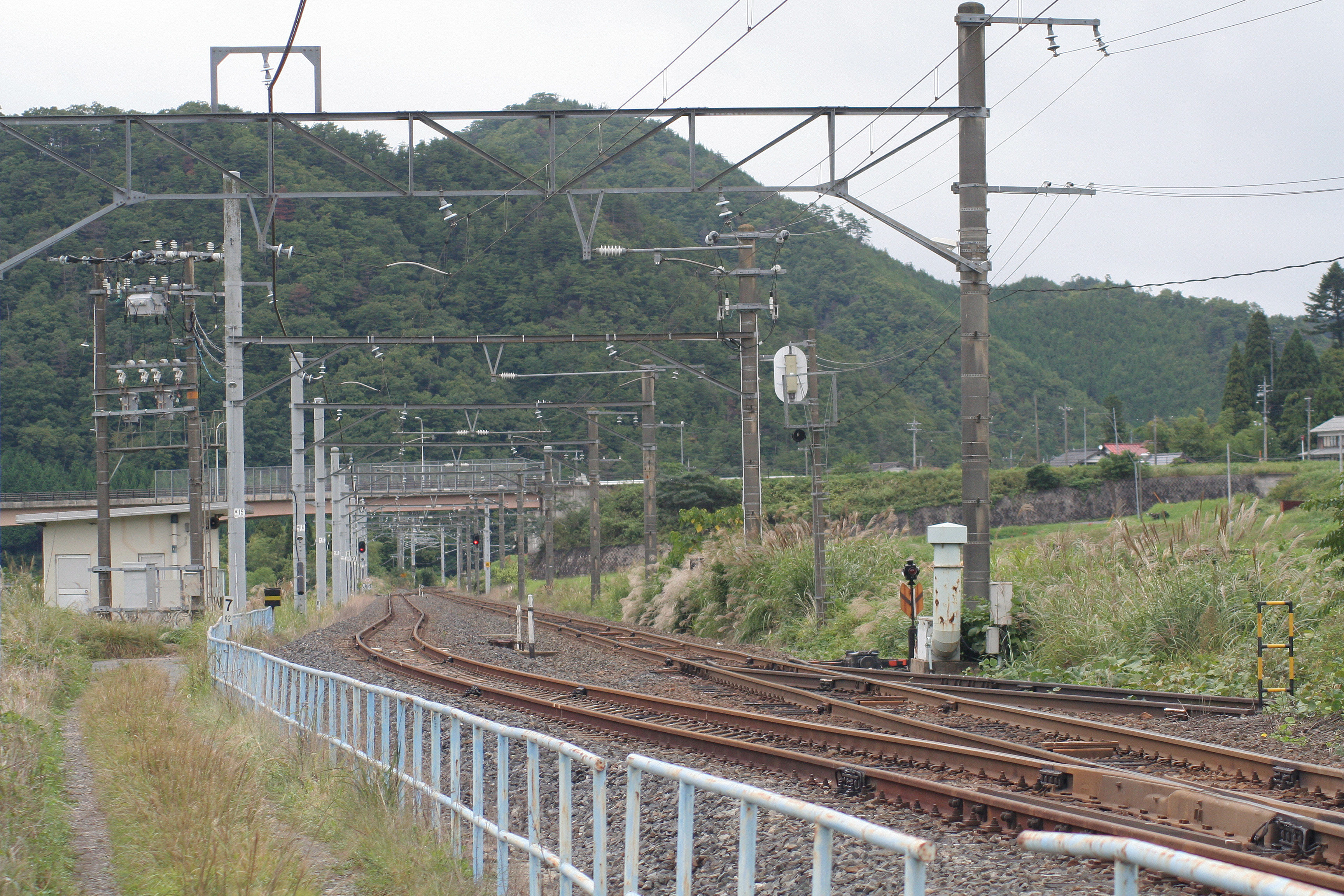 West Japan Railway Hakubi Line Shimoiwami Signal station